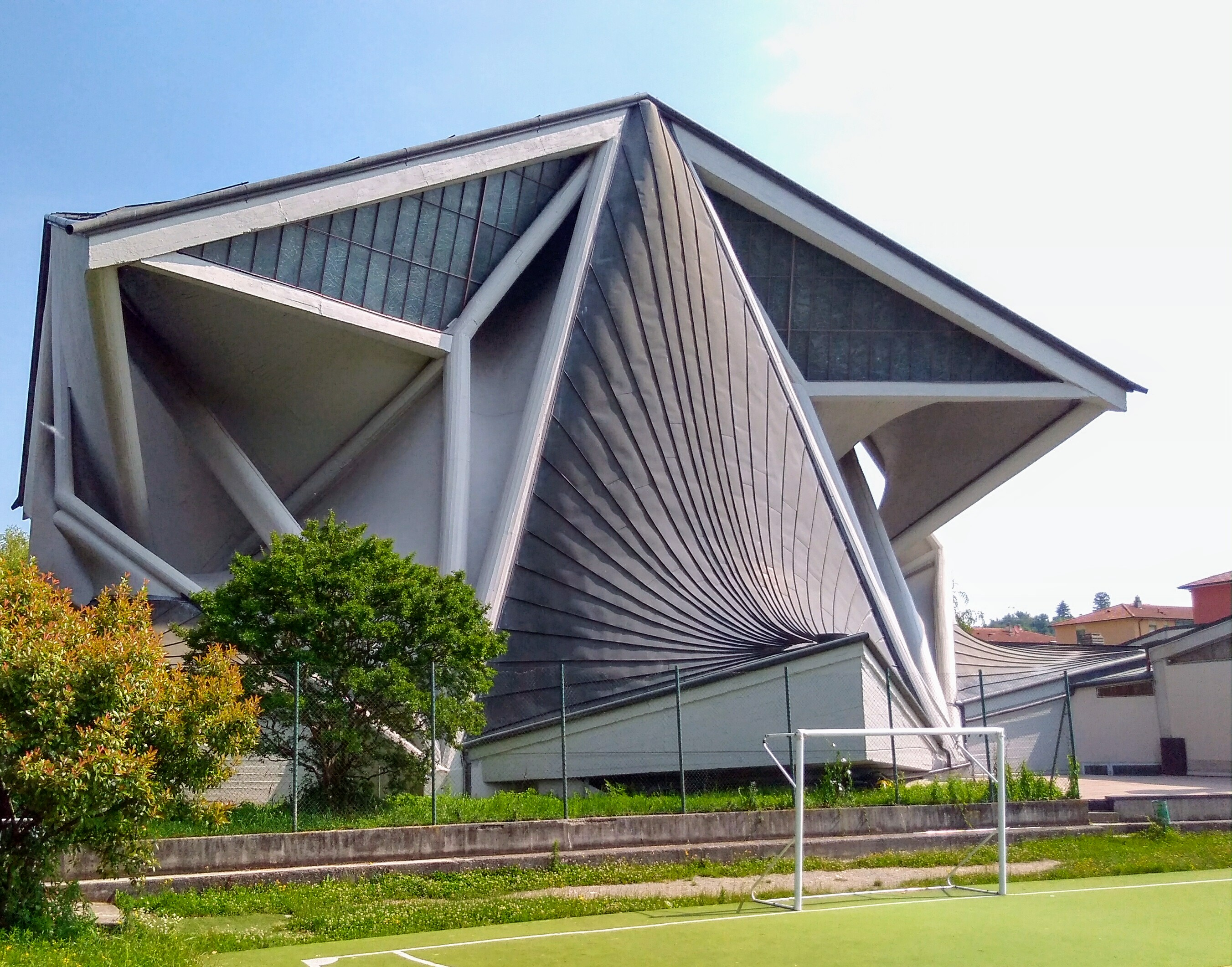 Longuelo church at Bergamo, Italy, seen from rear